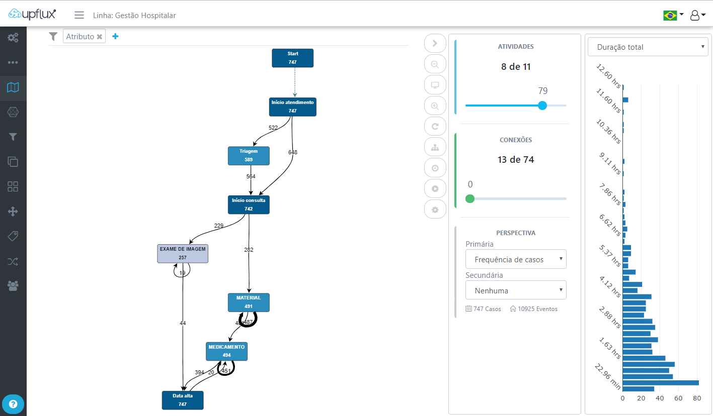 Discovered process by process mining tool